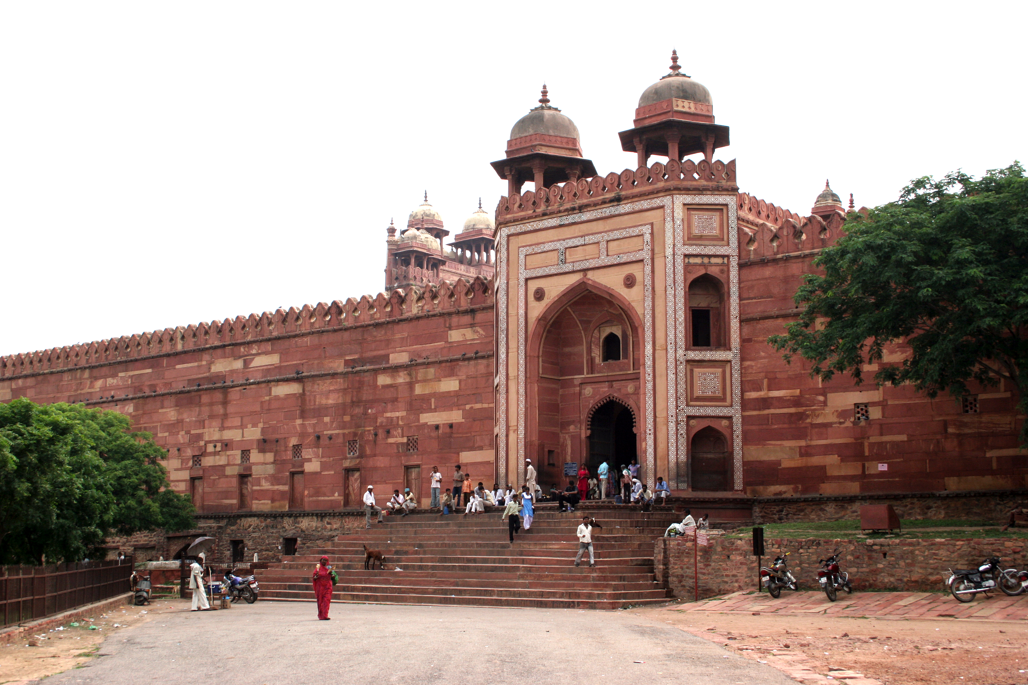 The smaller gate to the mosque at Fatehpur Sikri near Agra, India